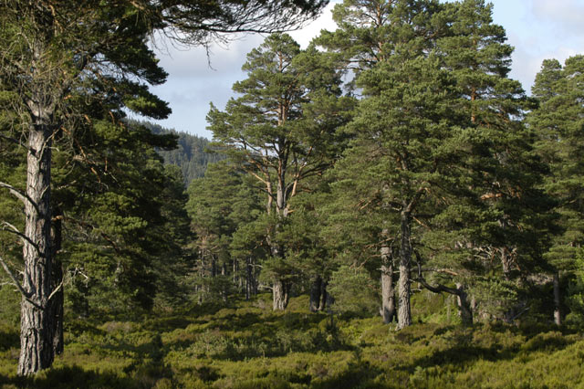 Ancient Caledonian Forest, Glen Tanar. These Scots Pines are some of the few remnants of the ancient Caledonian Woods still growing in Scotland today. These are in Glen Tanar. Other remnants may be found at Rothiemurchus and Glen Affric.